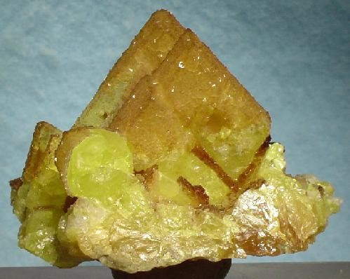 Melanophlogite, Sulphur Locality: Racalmuto, Agrigento Province, Sicily, Italy (Locality at ) Size: 4.7 x 3.2 x 3.2 cm. Sparkly, micro cubes of the ULTRA-RARE organic quartz, melanophlogite, RICHLY cover the VERY AESTHETIC, spearpoint-shaped, en-echelon sulfur crystals on matrix from near the Type Locality in Sicily. This is not only an excellent sulfur specimen, but also contains a very rare organic mineral - a super combo. Ex. Dr. E.W. Heinrich and Seaman Museum Collections. Dr. Heinrich was a well-known mineralogy professor at the University of Michigan and his 15,000 piece collection was acquired by the Seaman.